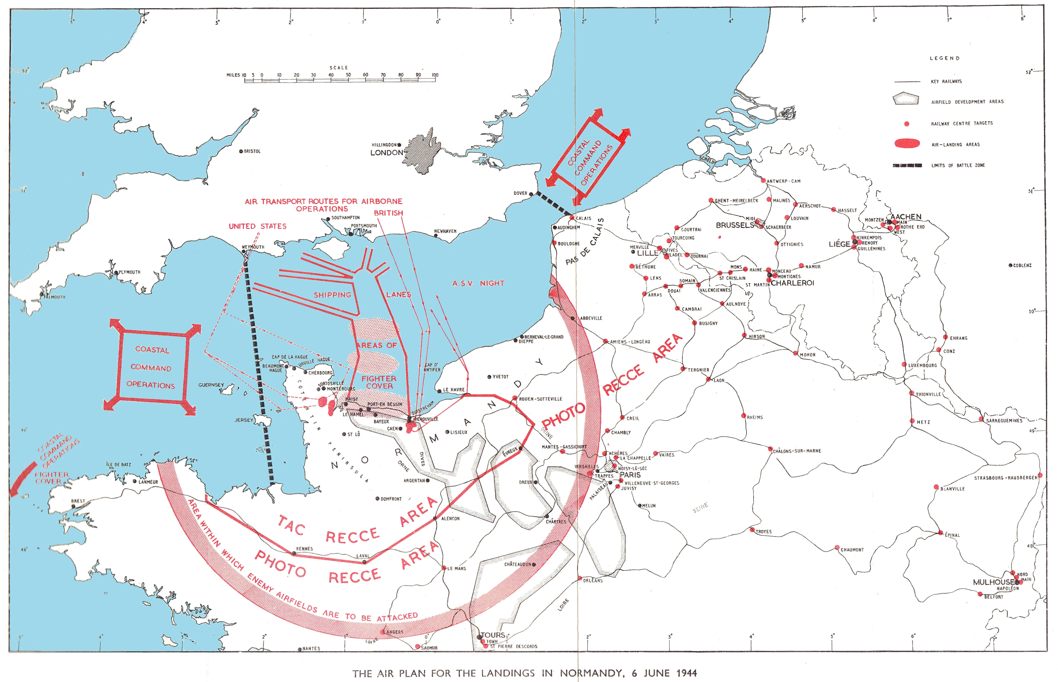 Map of the air plan for the Allied landings in Normandy on 6 June 1944